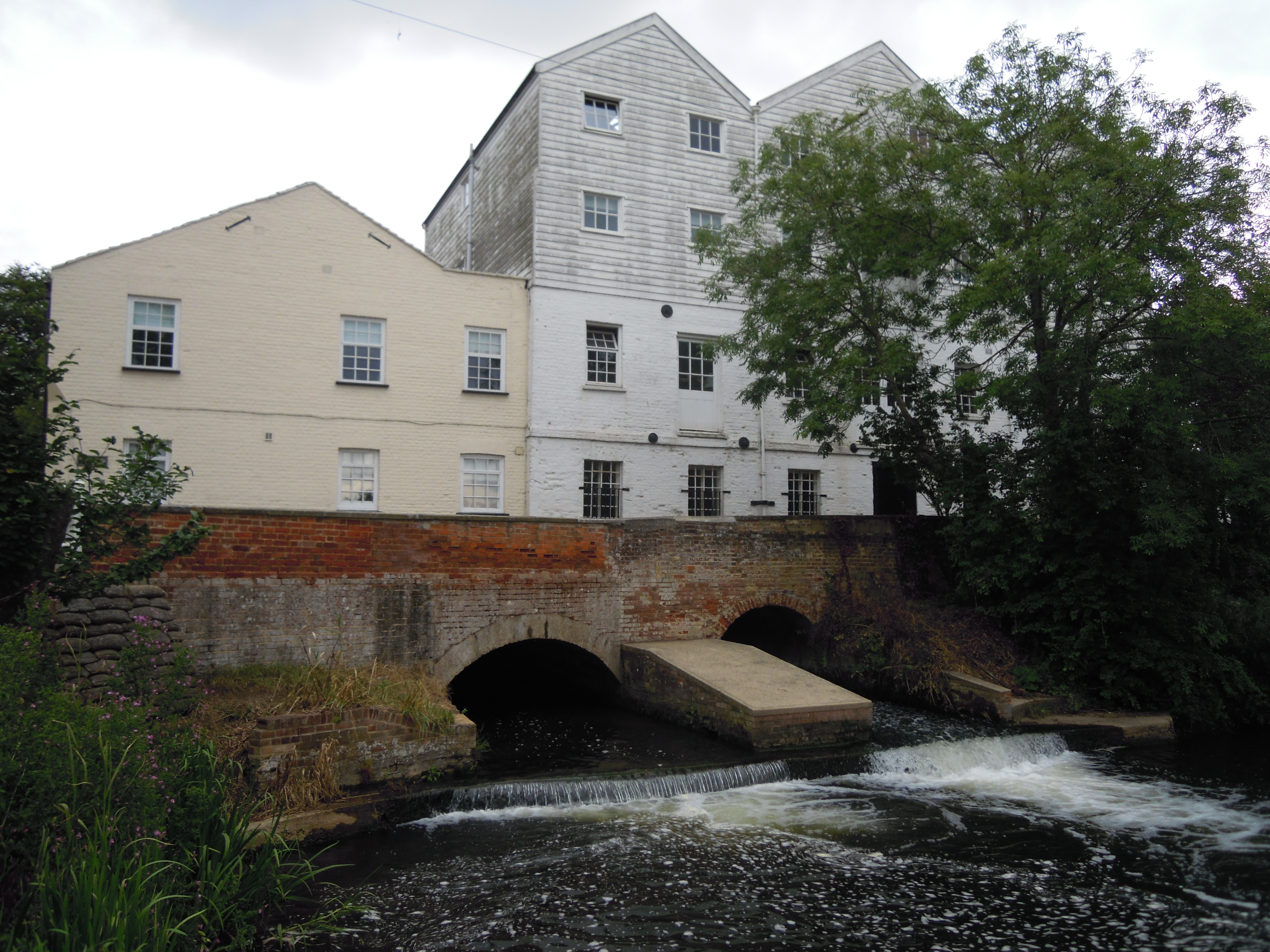 Buxton Watermill is an imposing four storey water mill which is built with brick and weatherboard, dating originally from 1754. The mill stands astride the river Bure. It was expanded in the 19th century. The sixteen foot water wheel was housed in a separate building behind the mill house, and was replaced by a turbine in 1902. The mill was converted to a restaurant and craft shops in the 1970s, and was then home to a number of small businesses until 1991, when the building was destroyed by fire. An award winning rebuilding programme followed, using much reclaimed material from mills all over the country. The mill was then converted to a hotel and conference centre which closed in 2002. Today it is a private residence made up of nine apartments.